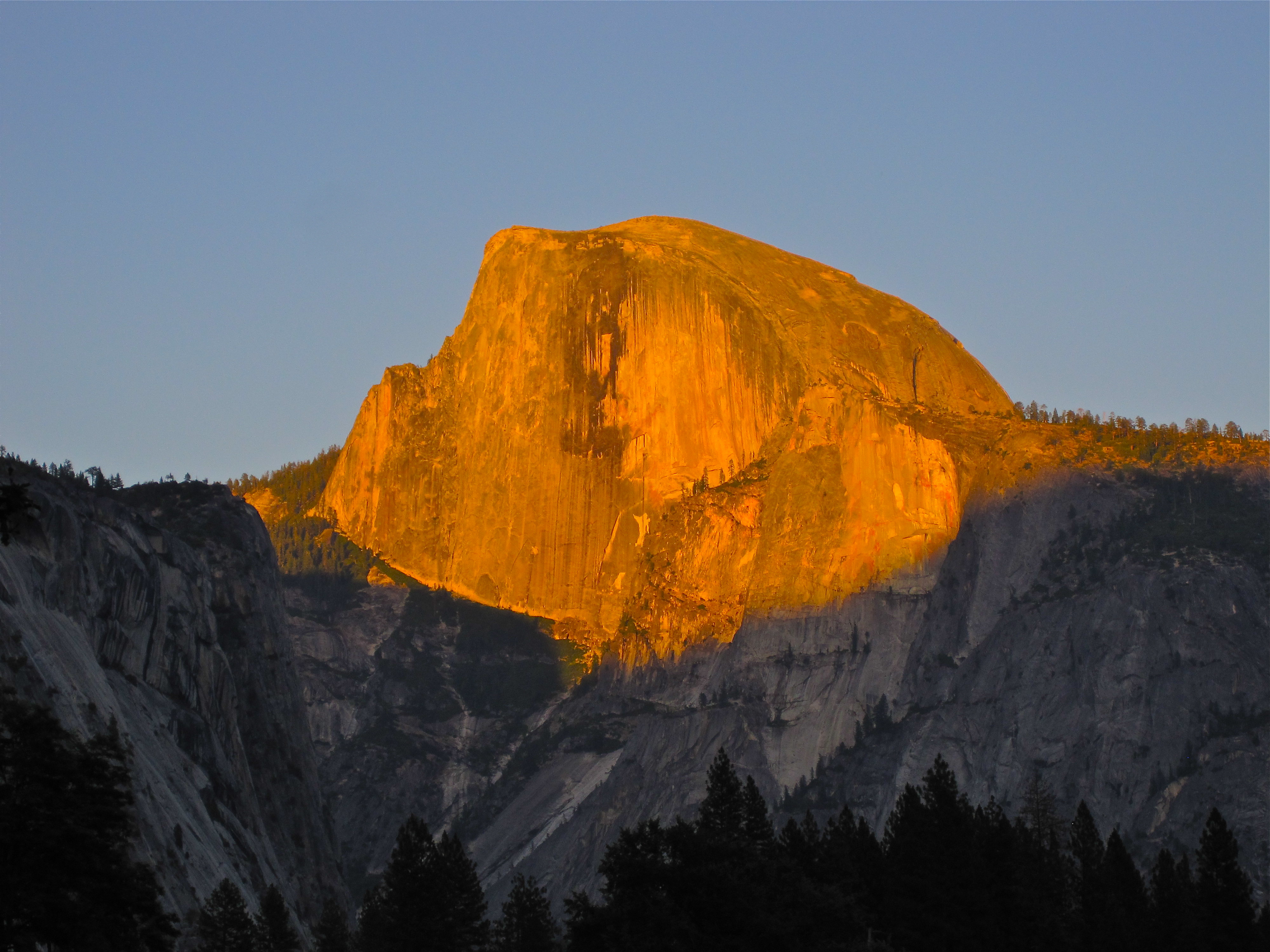 Sunset on Half Dome — seen from near Yosemite Lodge, in Yosemite Valley, California.